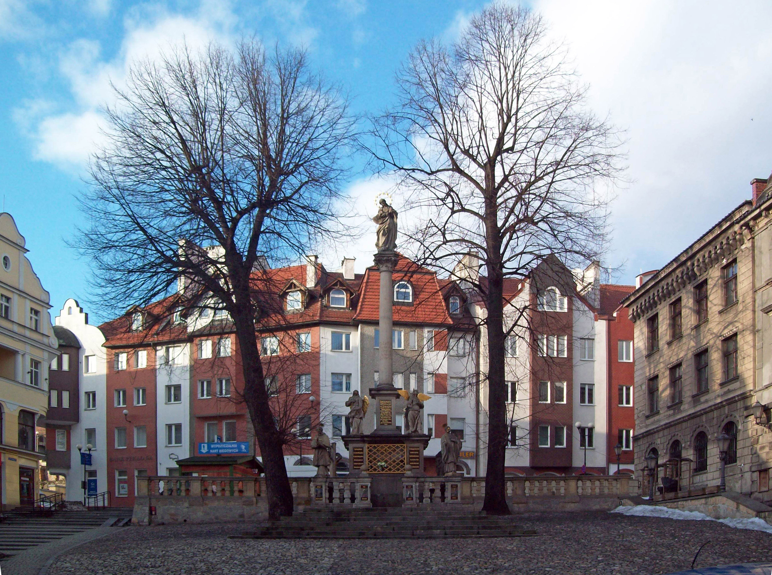 Market Place in Kłodzko, north elevation.